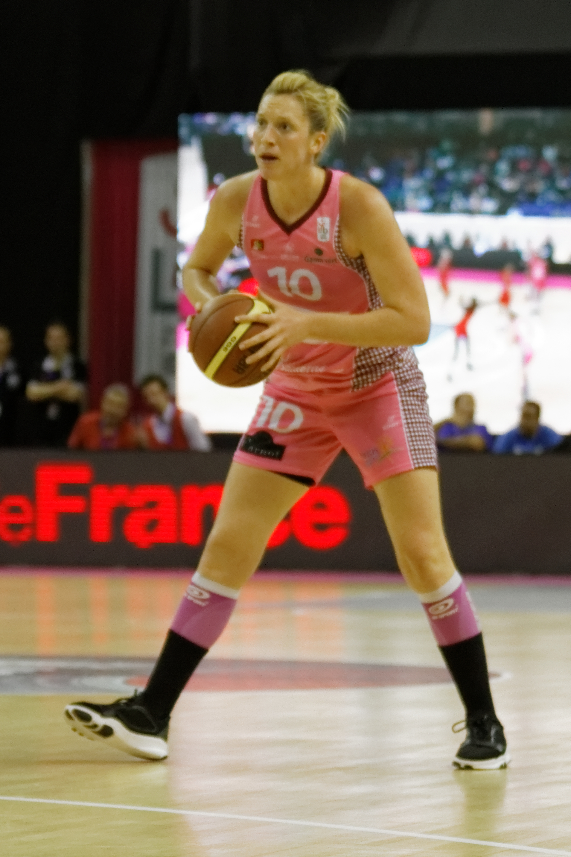 Open LFB, Arras-Lyon, October 6th, 2013.